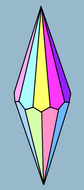 Decagonal trapezohedron